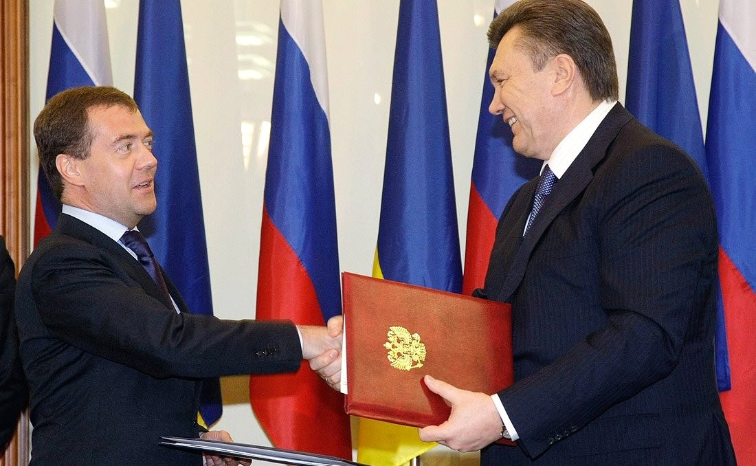 KHARKIV, UKRAINE. Signing of a Russian-Ukrainian agreement on the presence of Russia’s Black Sea Fleet on Ukrainian territory. With President of Ukraine Viktor Yanukovych.